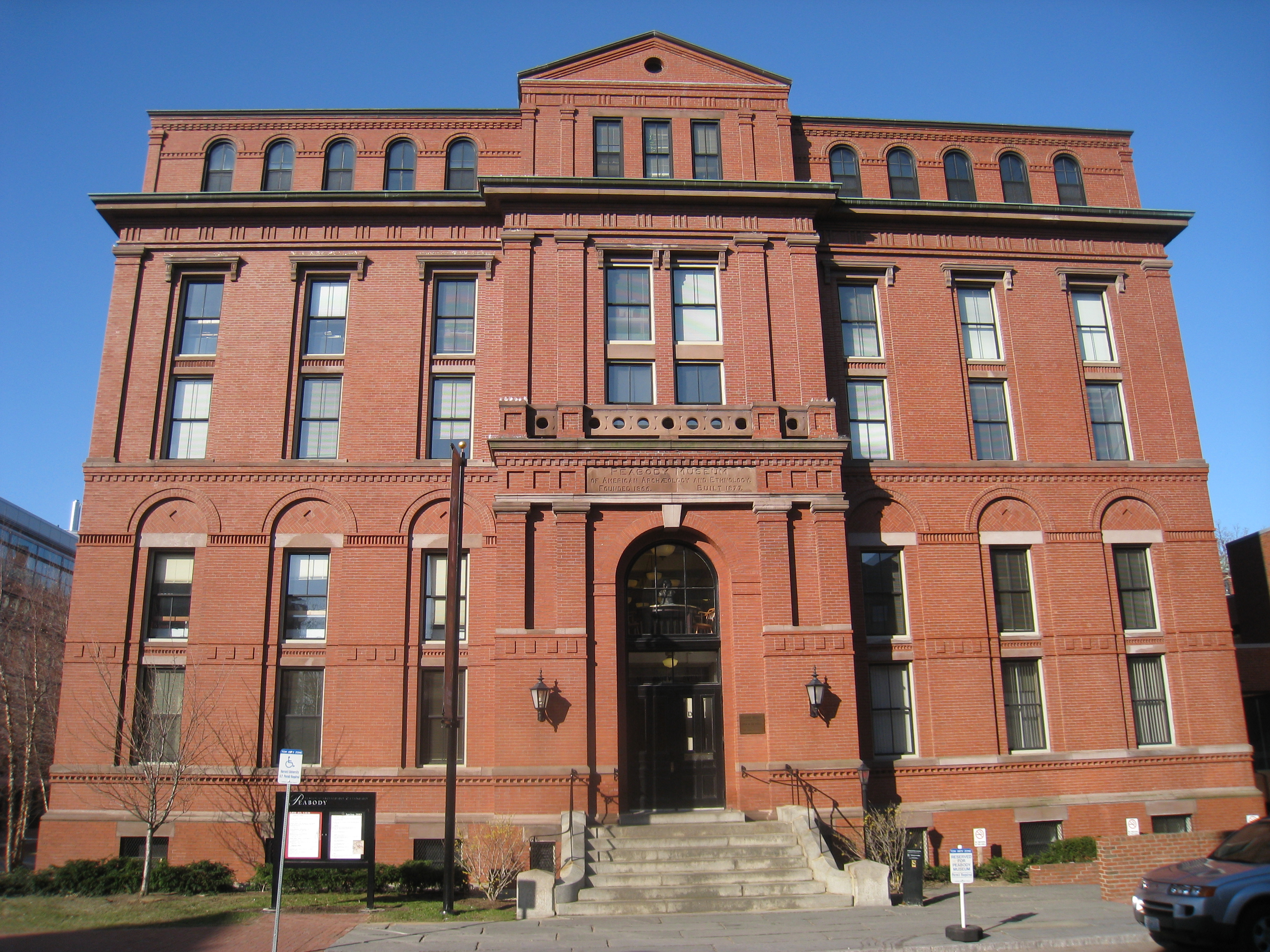 Peabody Museum of Archaeology and Ethnology, Harvard University, 11 Divinity Avenue, Cambridge, Massachusetts, USA. Exterior facade.